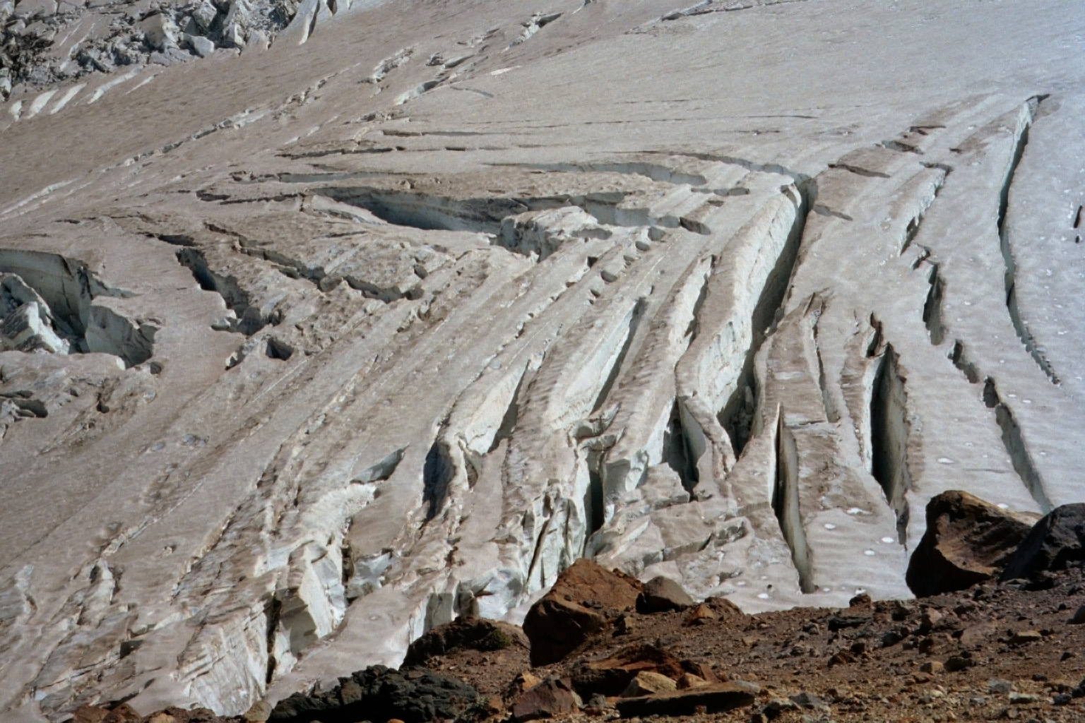 Shear or herring-bone crevasses on the Emmons Glacier; such crevasses often form near the edge of a glacier where interactions with underlying or marginal rock impede flow. In this case, the impediment appears to be some distance from the near margin of the glacier. Viewpoint location: East Ridge of Steamboat Prow 90 m west of Camp Curtis, Mount Rainier National Park Viewpoint elevation: 2825 meter (9270 ft) View direction: South-southeast Location source: Casio 1675 altimeter watch, notes, Google Earth Location Datum: WGS84 Camera: Olympus 35 mm